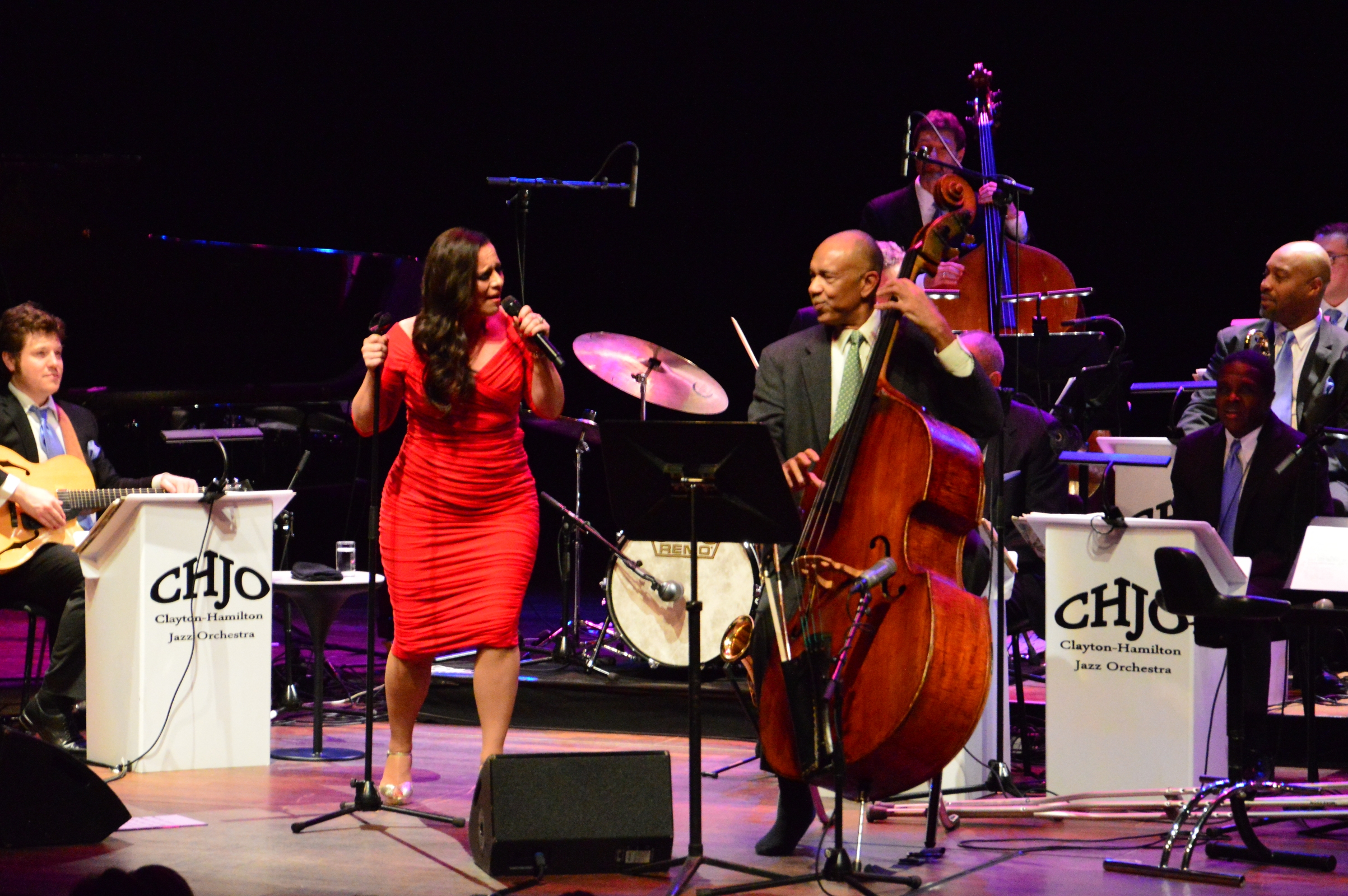 Singer Trijntje Oosterhuis with the Clayton Hamilton Jazz Orchestra in "De Doelen", Rotterdam, the Netherlands.